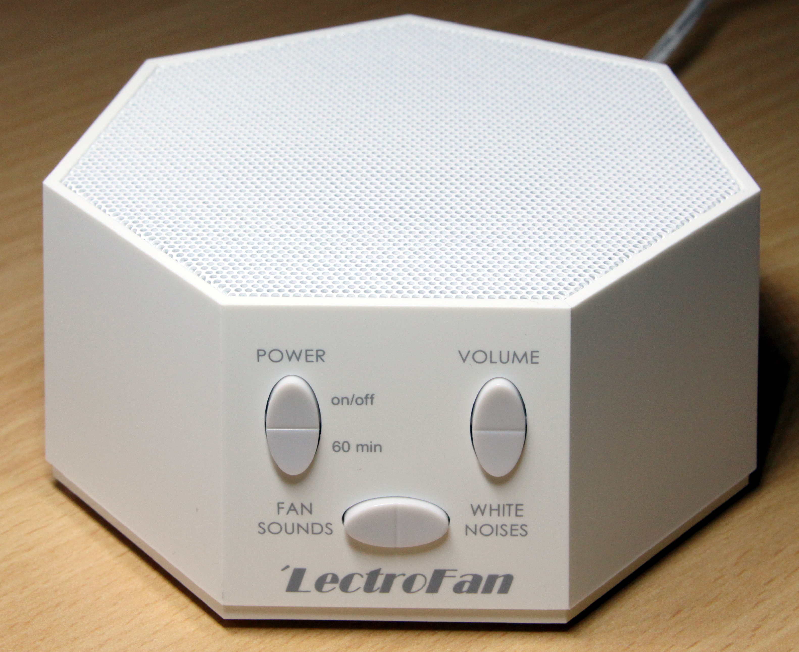 A LectroFan, which generates white noise, pink noise, red (Brownian) noise and fan sounds electronically. There are ten fan sounds and ten kinds of noise to choose from.